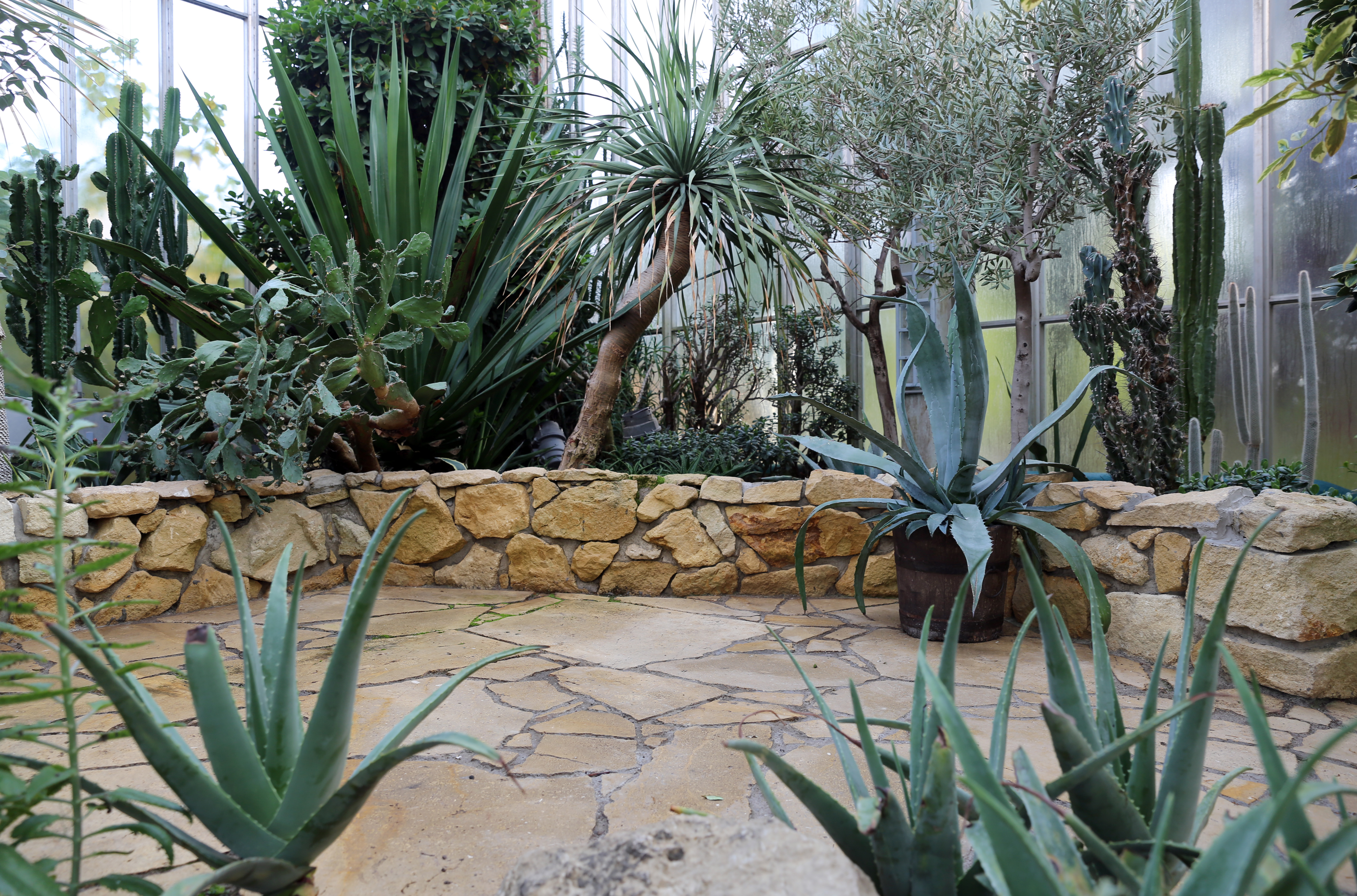 Greenhouse at Blumengärten Hirschstetten in Vienna, Austria.